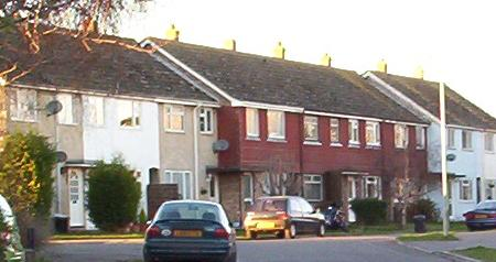 Terraced Houses in Stanford in the Vale, Vale of White Horse, England